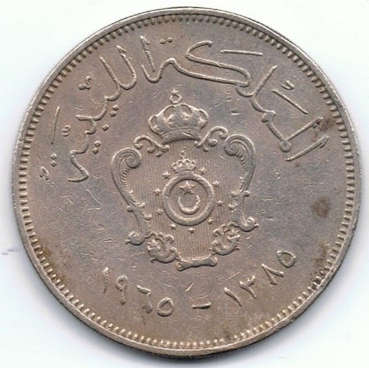 One hundred Milliemes